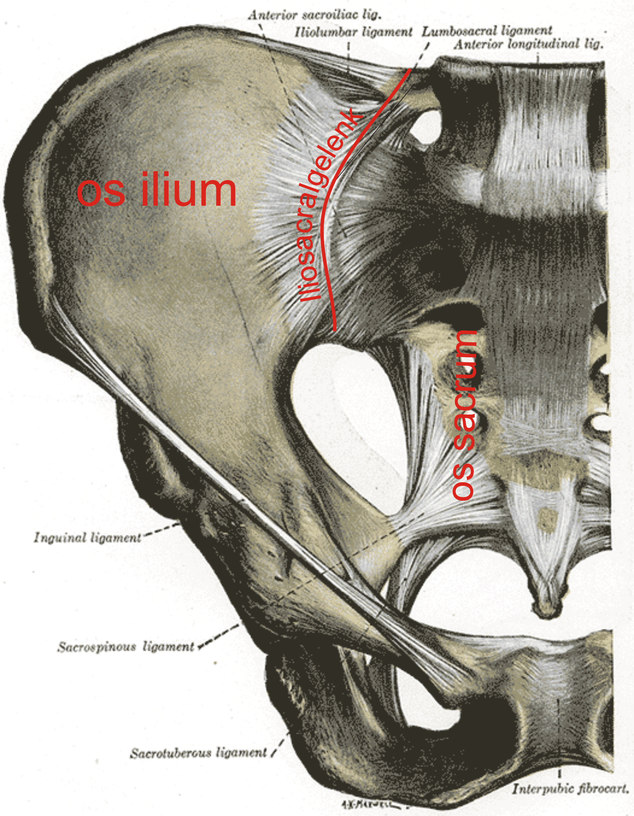 Anterior articulations of pelvis with marked sacroiliac joint